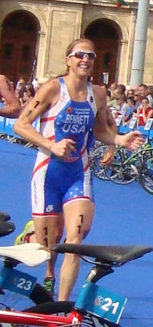 American Triathlete Laura Bennett competing in the 2010 ITU World Championship in Budapest